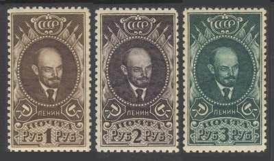 Stamp of USSR